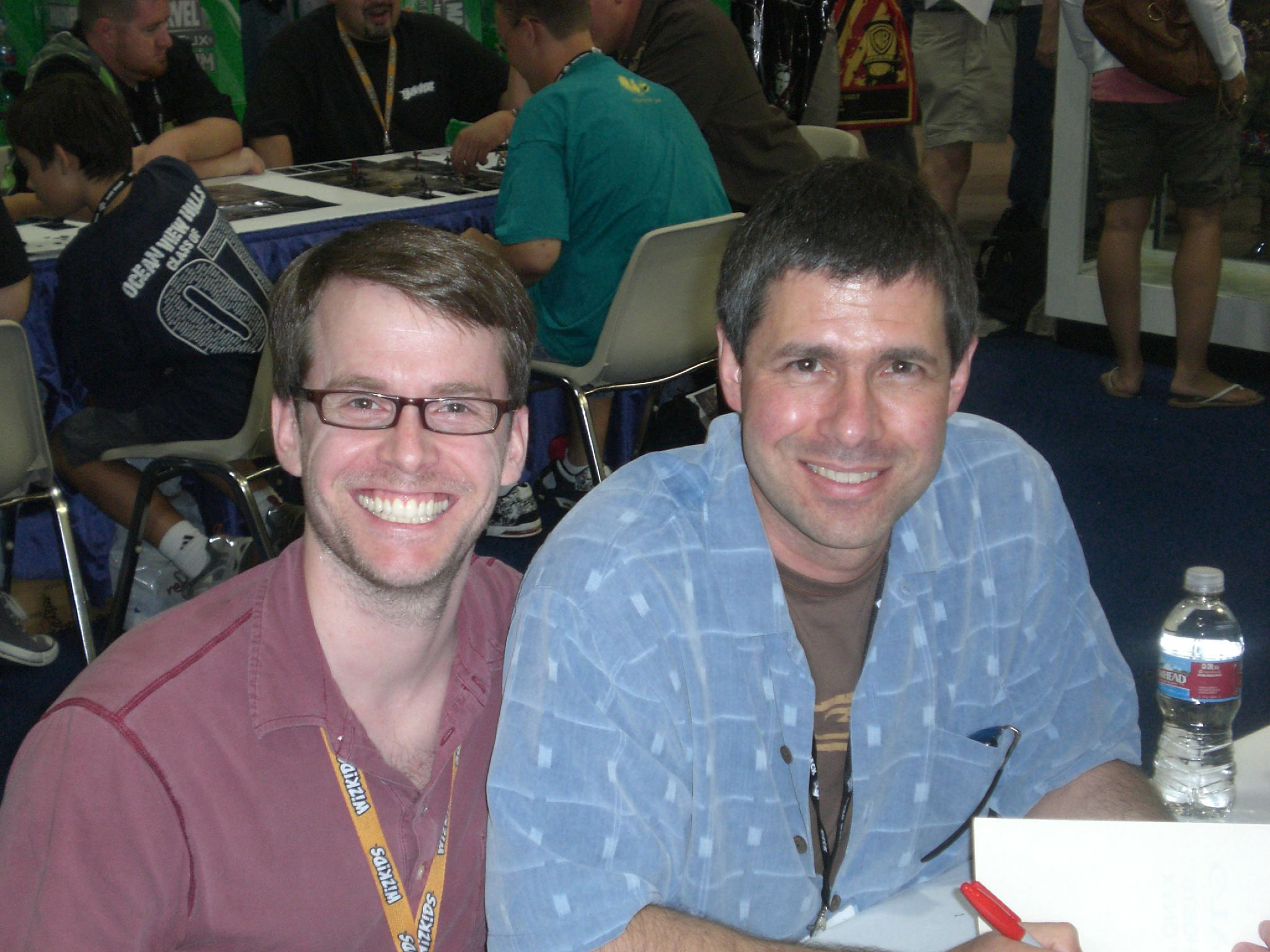 Bestselling authors Joseph Staten and Eric Nylund manning a booth at ComicCon 2007.